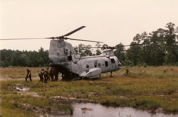 Soldiers of the Bermuda Regiment PNCO (Potential Non-Commissioned Officer) Cadre board a USMC CH-46 Sea Knight helicopter at a Tactical Landing Zone (TLZ) at Camp Lejeune, North Carolina, in June, 1994.